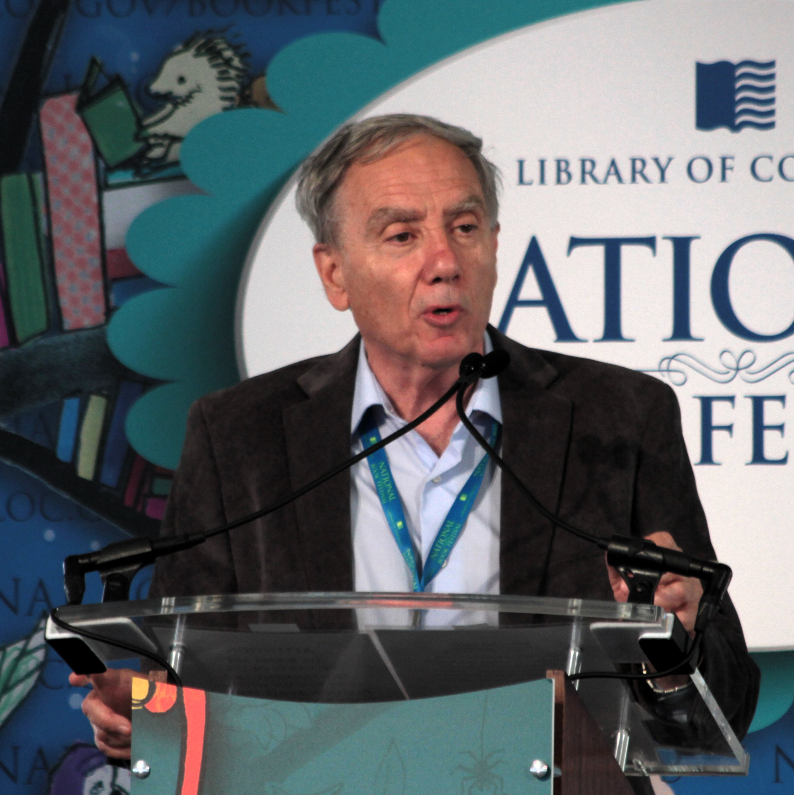 Mario Livio answering questions from the crowd after speaking about his new book Brilliant Blunders on the National Mall in Washington DC at the 2013 National Book Festival. Livio spoke from 12:00pm-12:45 pm in the Contemporary Life pavilion.